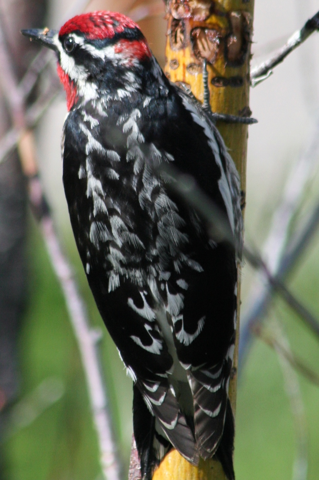 Red-naped sapsucker (sphyrapicus nuchalis), close-up view; photo taken in Grand Teton National Park WY